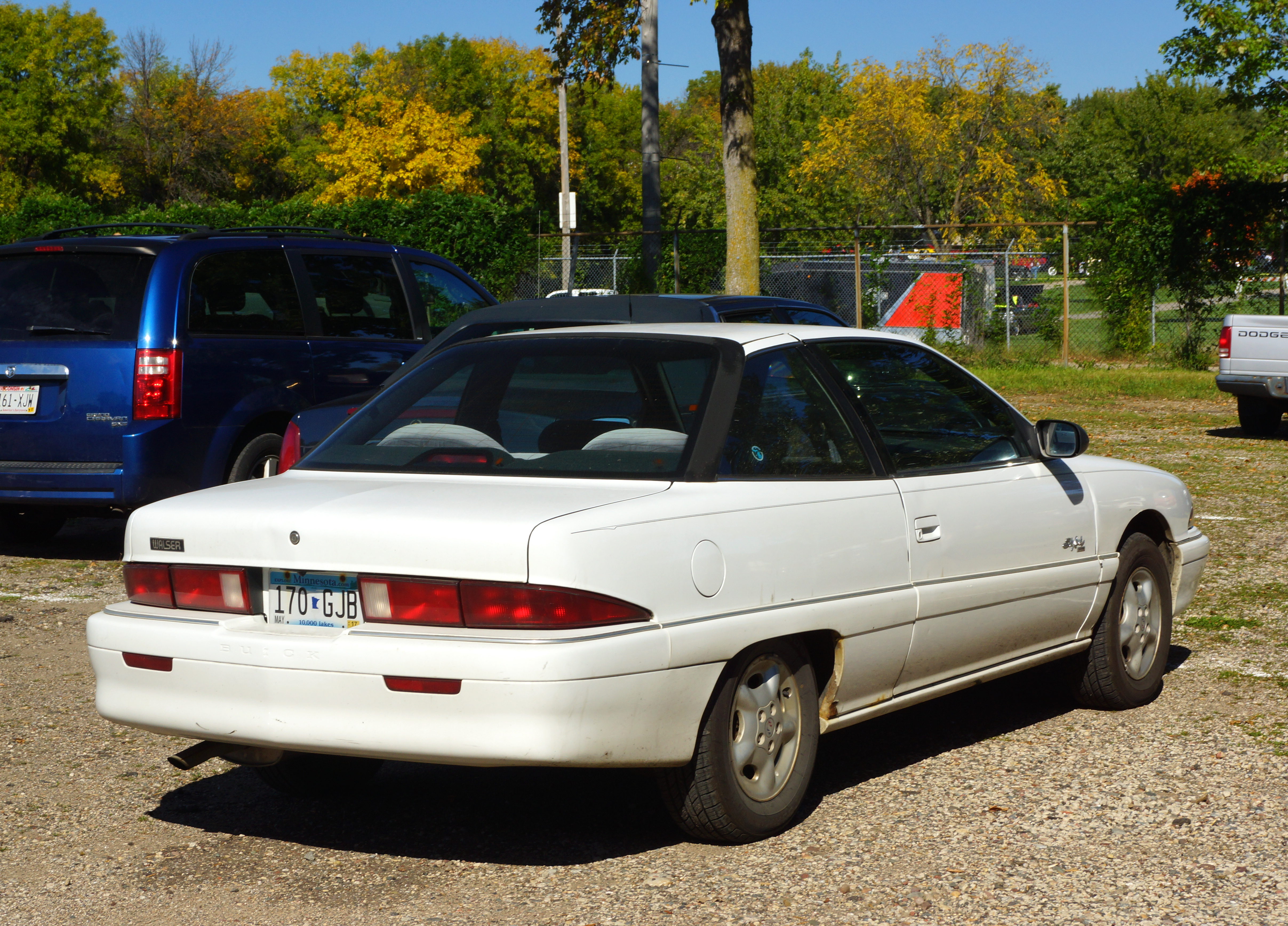 46th Annual Midwest Fall Swapmeet & Car Show Sponsored by the Capitol City Chapter of the AACA and the Twin Cities Model "A" Ford Club Minnesota State Fairgrounds St. Paul, Minnesota October 2016 Click here for more car pictures at my Flickr site.